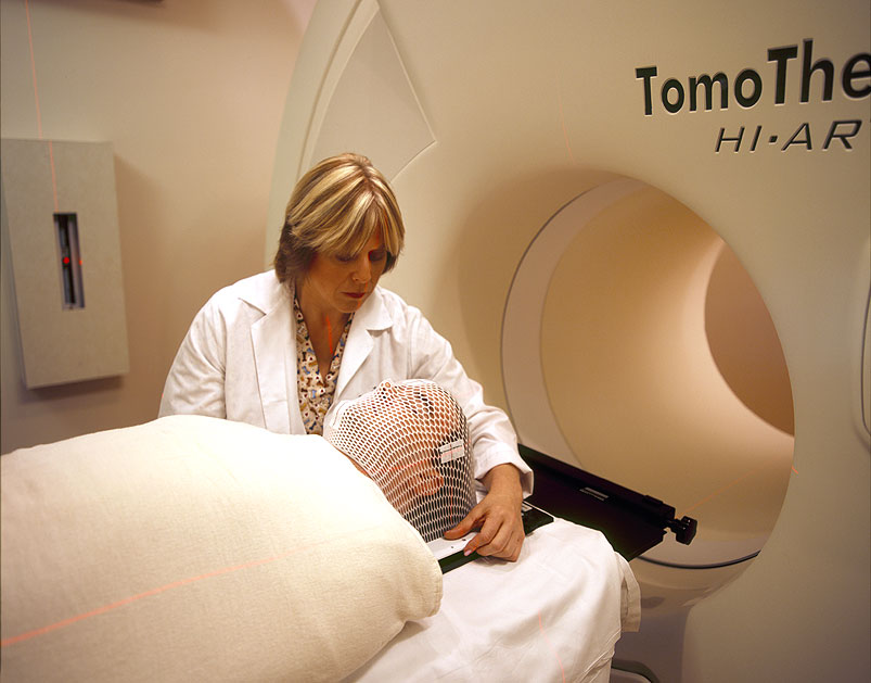 Title Patient Prepared for Radiation Therapy Description A Caucasian female radiation therapist prepares a patient (lying on back) for radiation treatment using the "TomoTherapy" machine. Tomotherapy is often used for patients with limited metastatic cancer. It delivers high-dose radiation yet reduces radiation exposure to healthy surrounding tissue. Topics/Categories People -- Adult People -- Health Professional and Patient Treatment -- Radiation Therapy Type Color, Photo Source National Cancer Institute